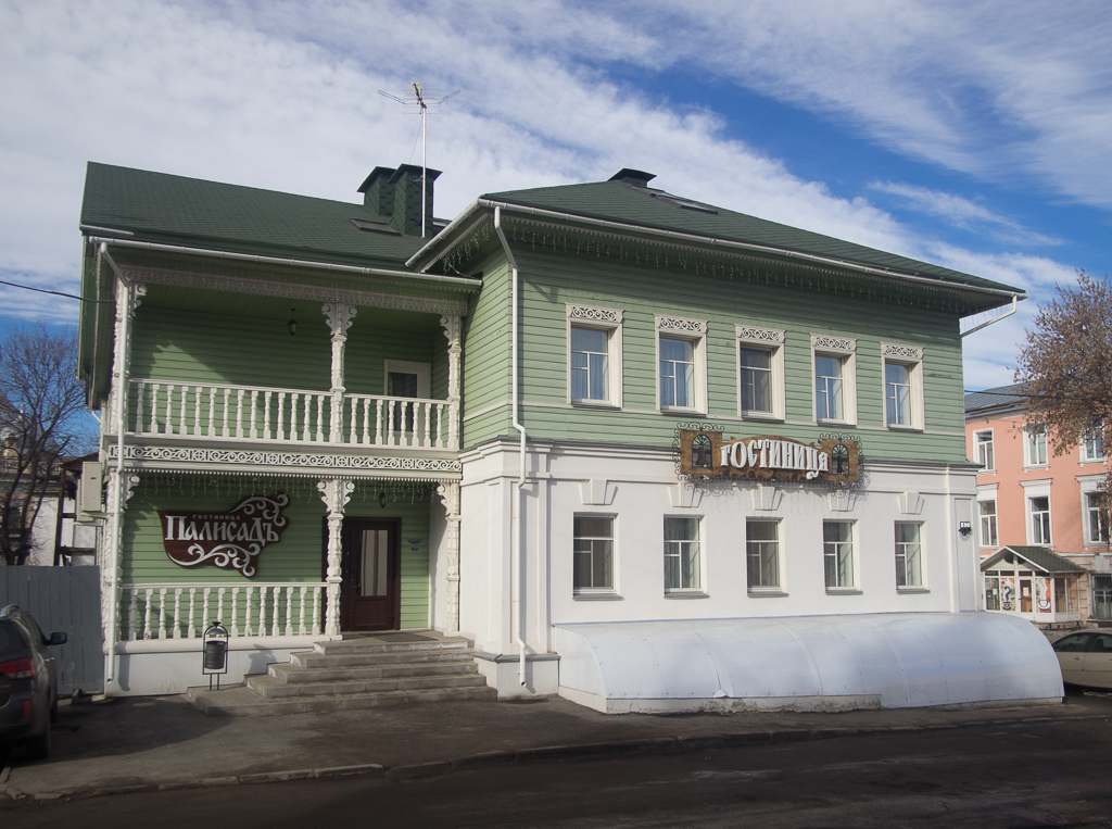 "Palisad" Hotel in Vologda, Russia